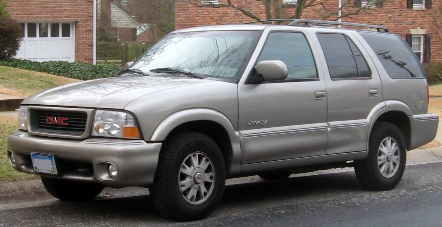 1998-2001 GMC Jimmy photographed in Kensington, Maryland, USA.